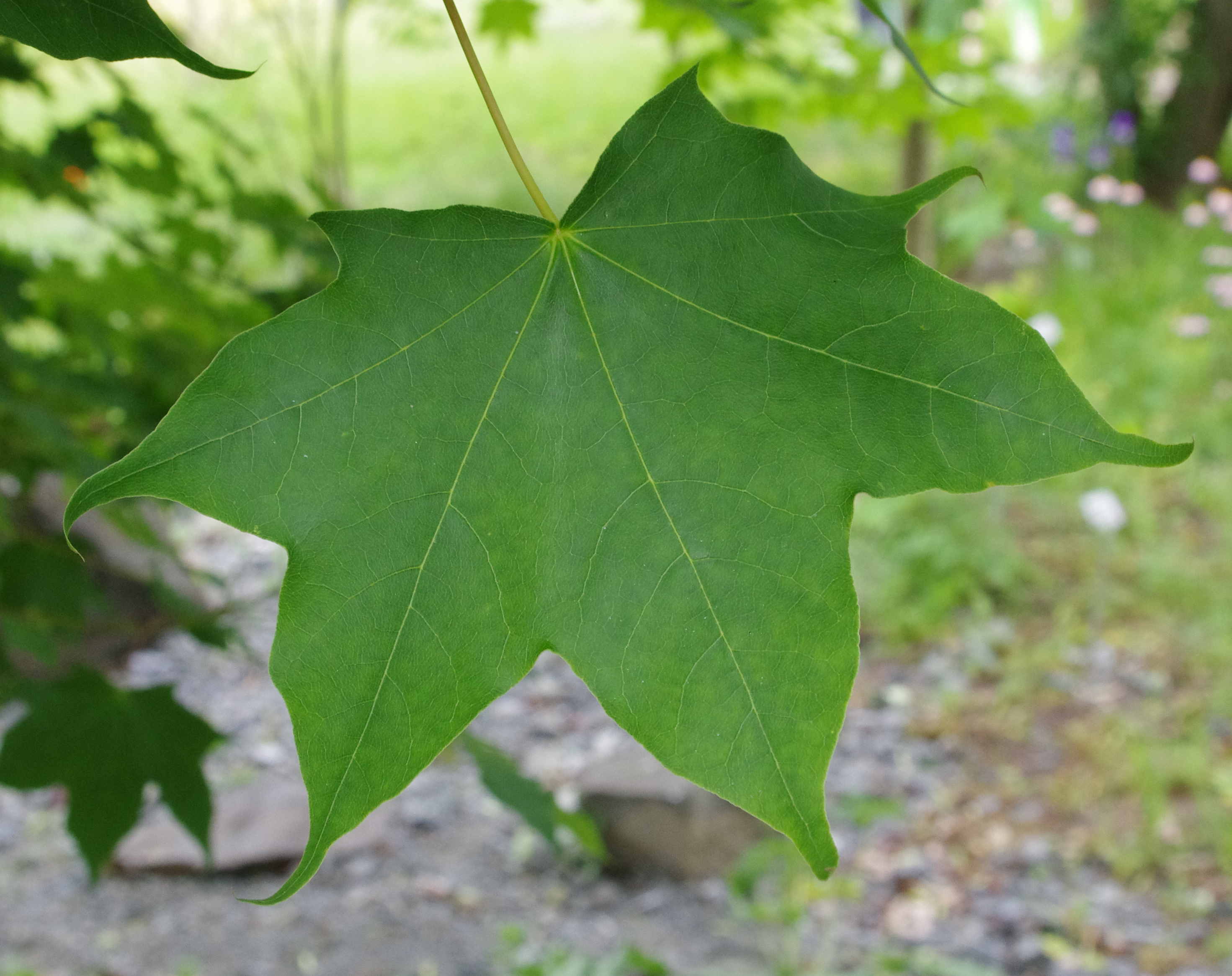 Acer cappadocicum at the ÖBG Bayreuth